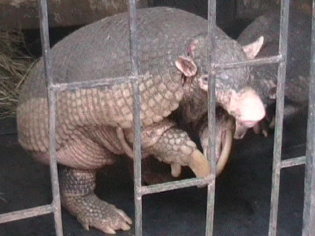 Ocarro or Giant Armadillo from Villavicencio Colombia